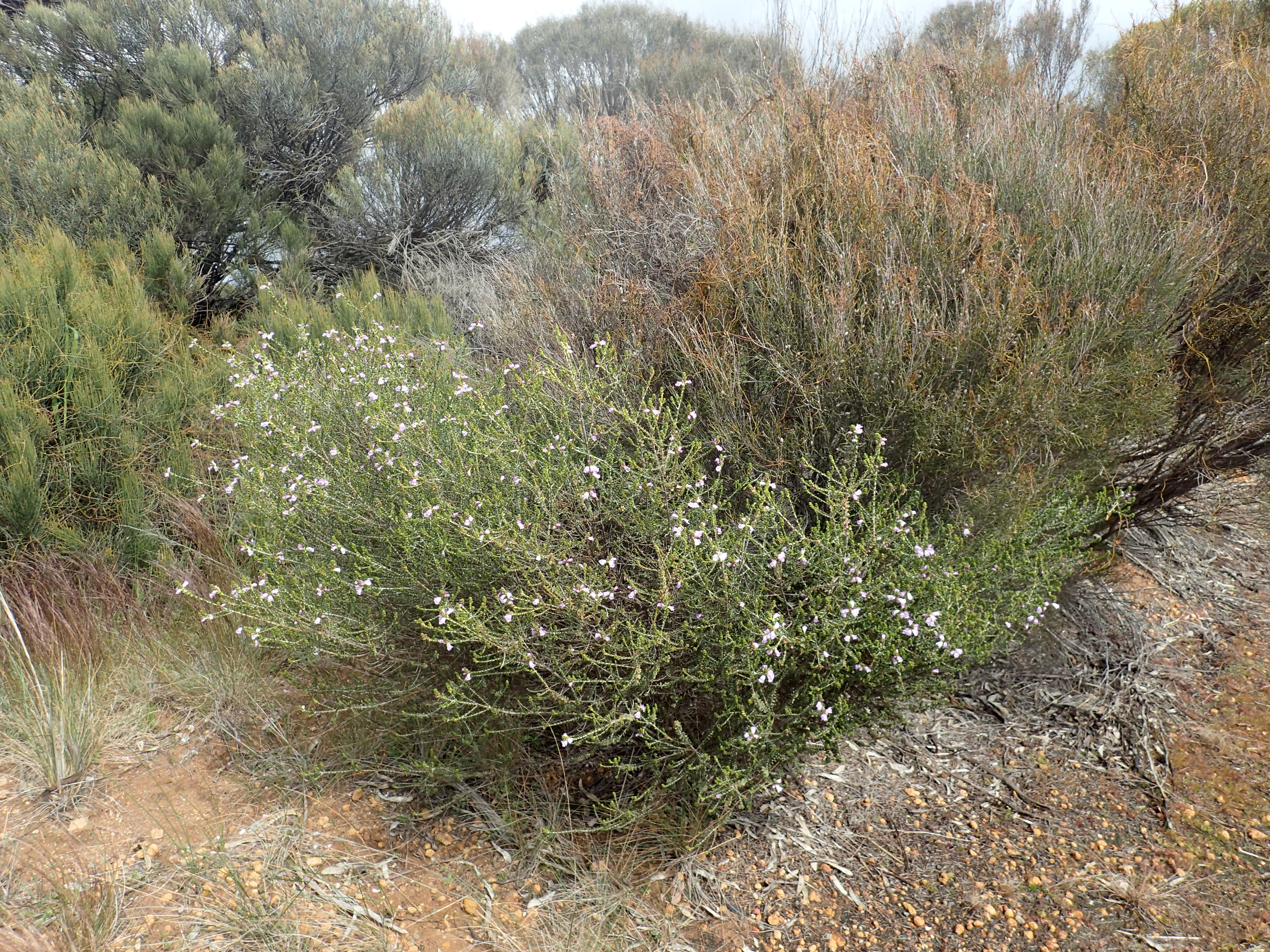 Eremophila lehmanniana growing 15km east of Kondinin